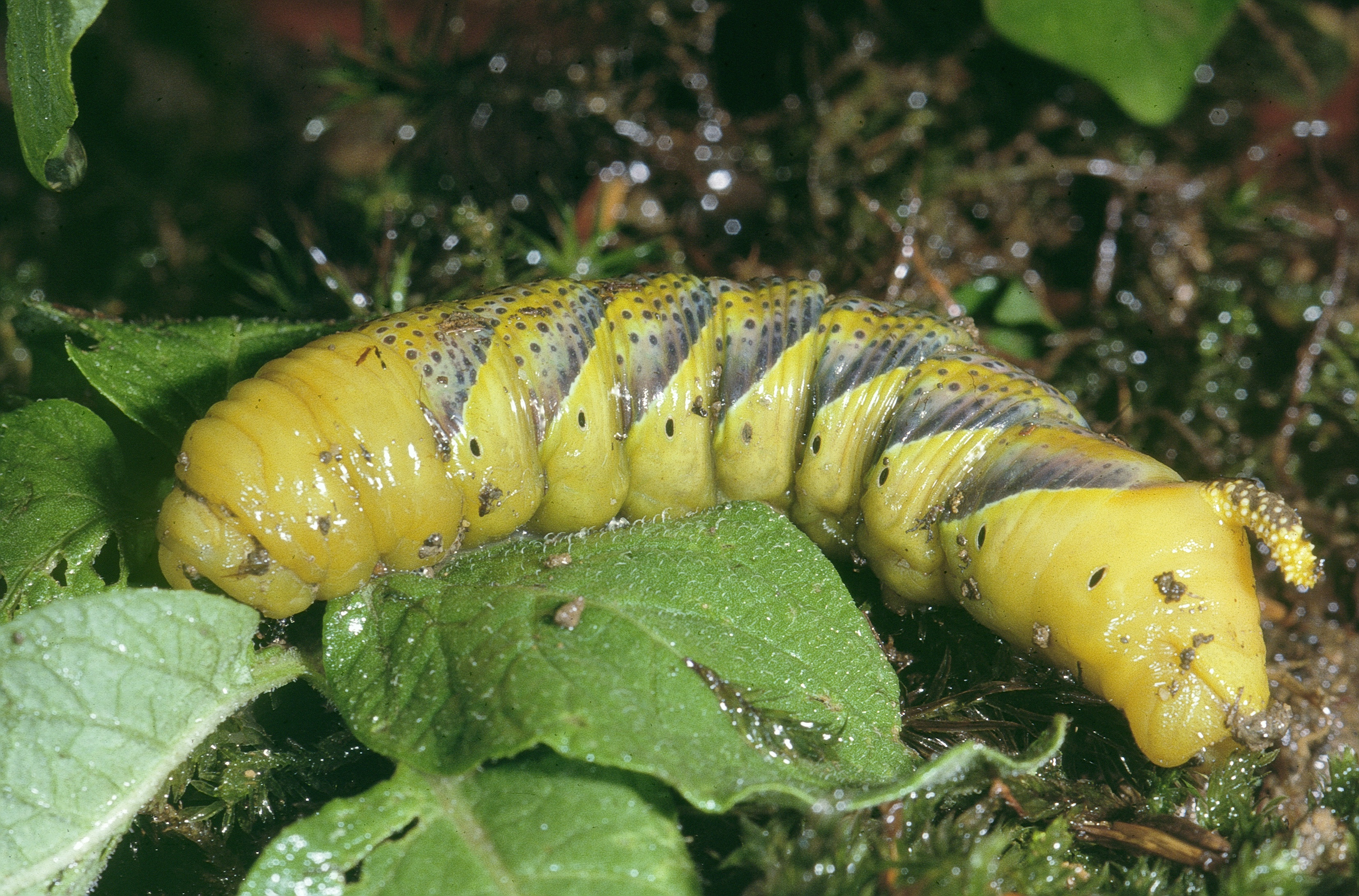 Caterpillar of the Acherontia atropos ( french:Sphinx tête de mort) photographed in Calvados in France.